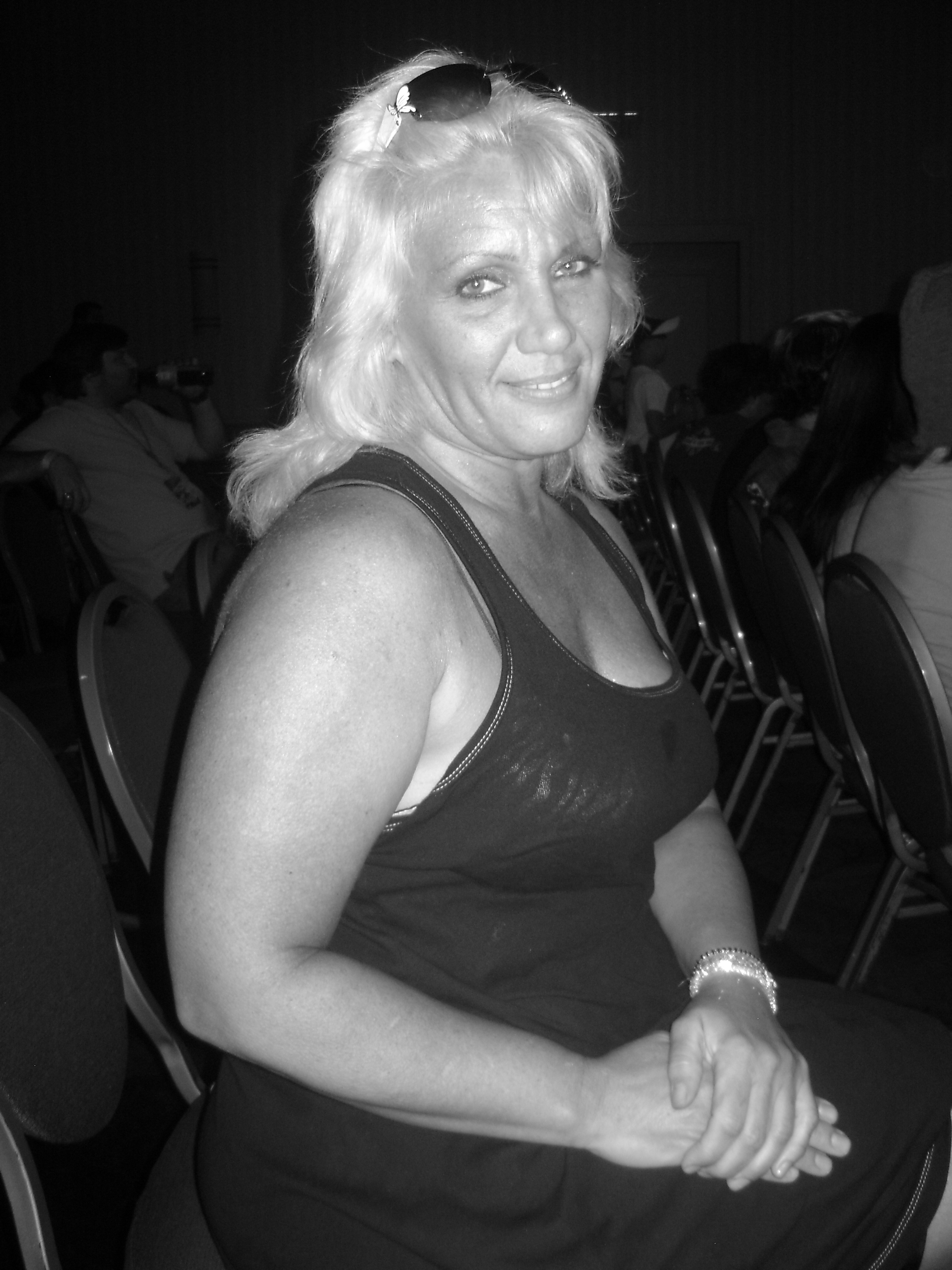 Nickla Roberts (Baby Doll) in August 2010.